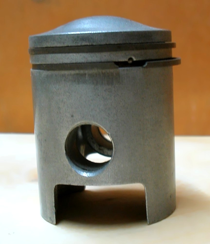 Piston rings for two-stroke engine air rounded, convex limited to the more central area of the piston crown